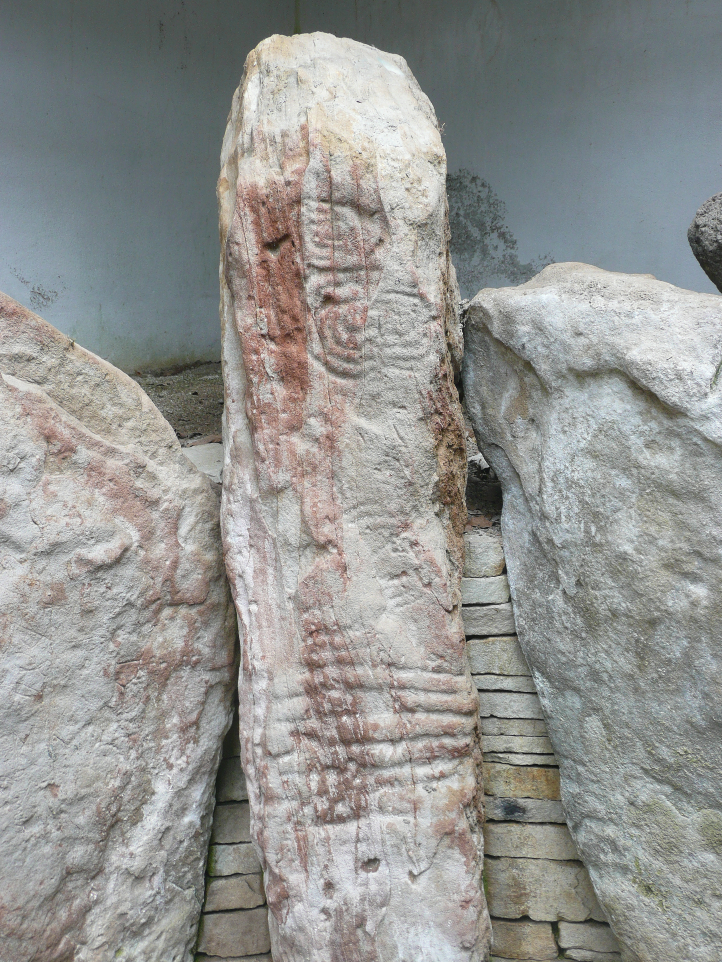 Central of three central stones, Knockmany Chambered Tomb, Co. Tyrone, Northern Ireland